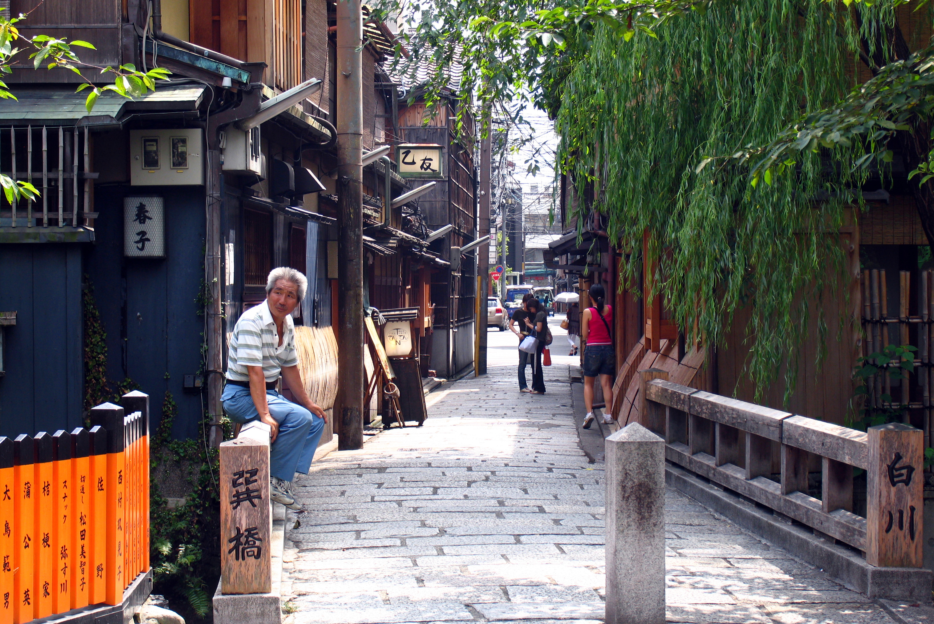 Little street in Gion